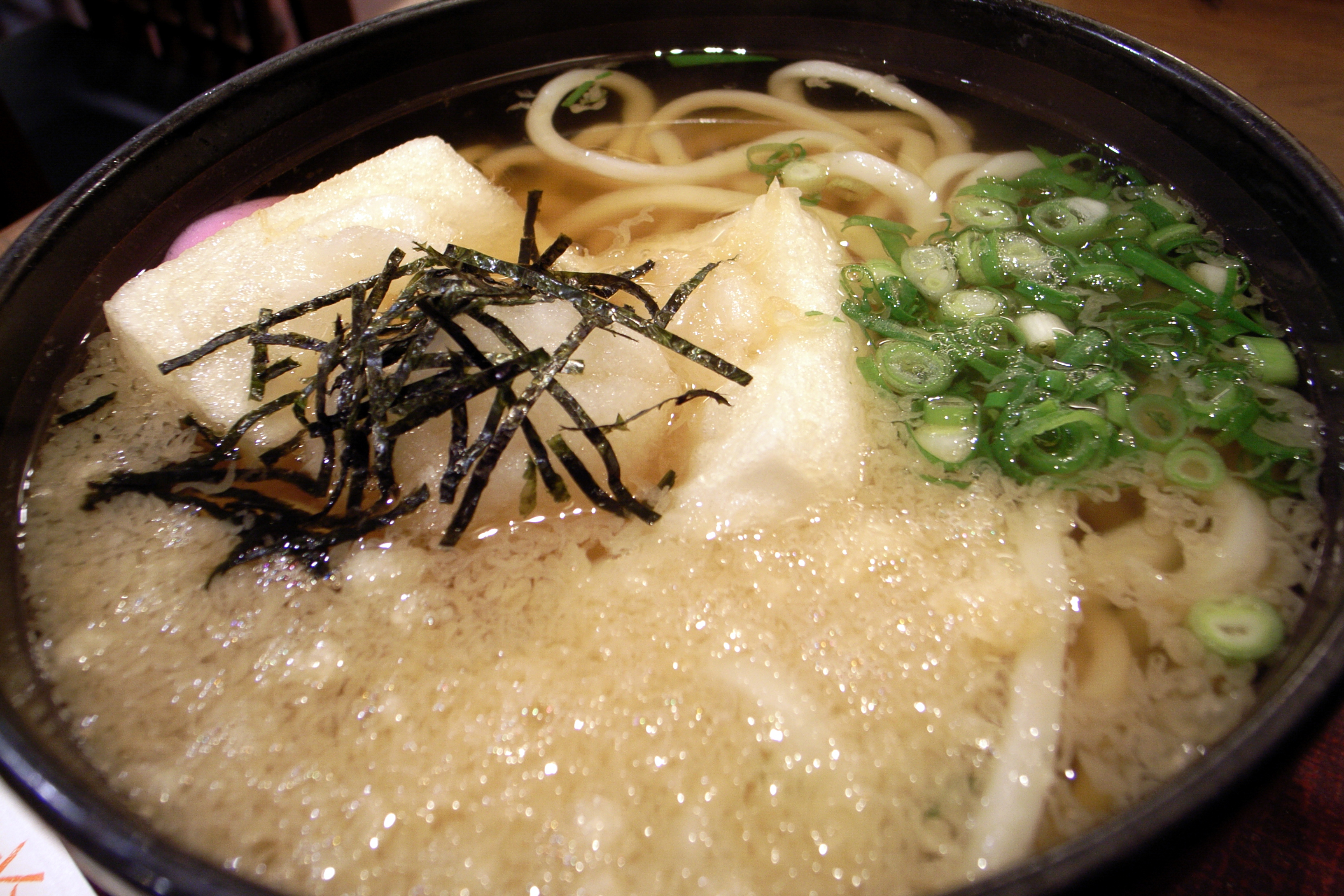 Udon with ricecake (mochi)夢吟坊 力うどん